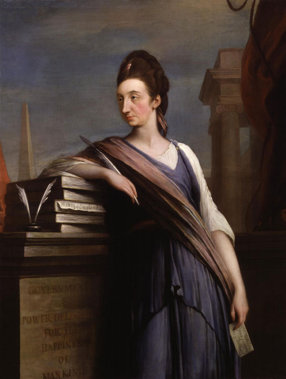 Portrait of Catharine Macaulay (1731‑1791)